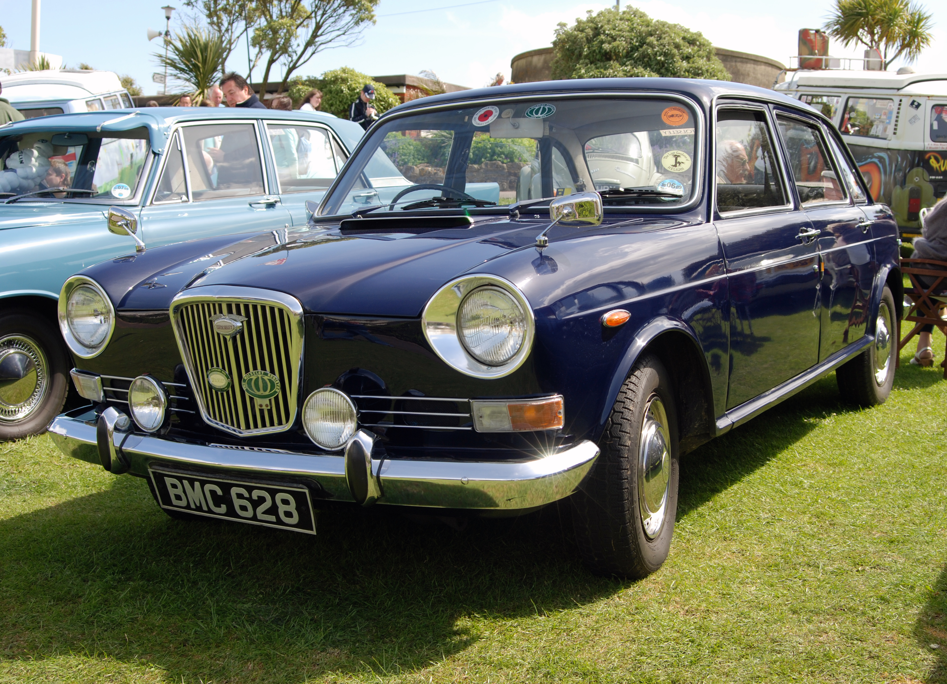 Wolseley 18/85 Mark II, first registered February 1971 (as per Magnificent Motors, Eastbourne, May 2009